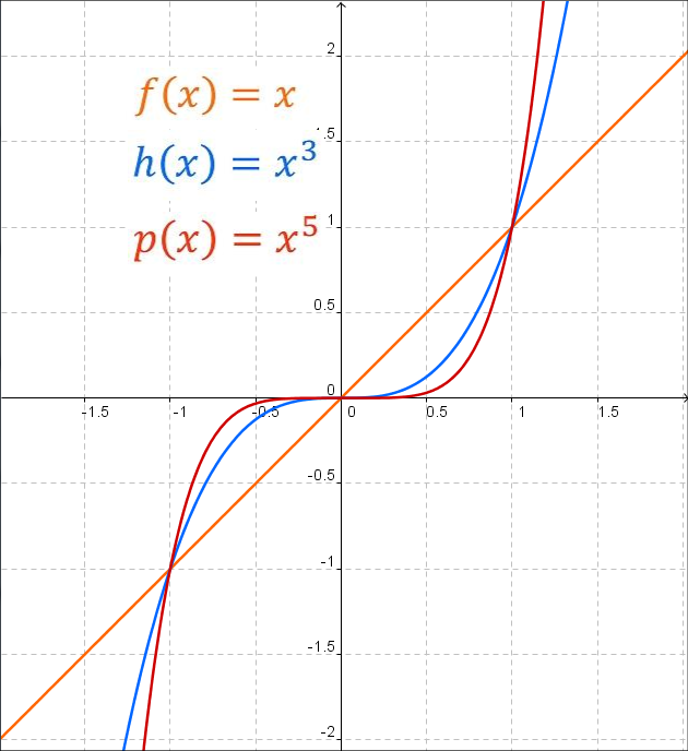 Power function graph degree 1 3 5